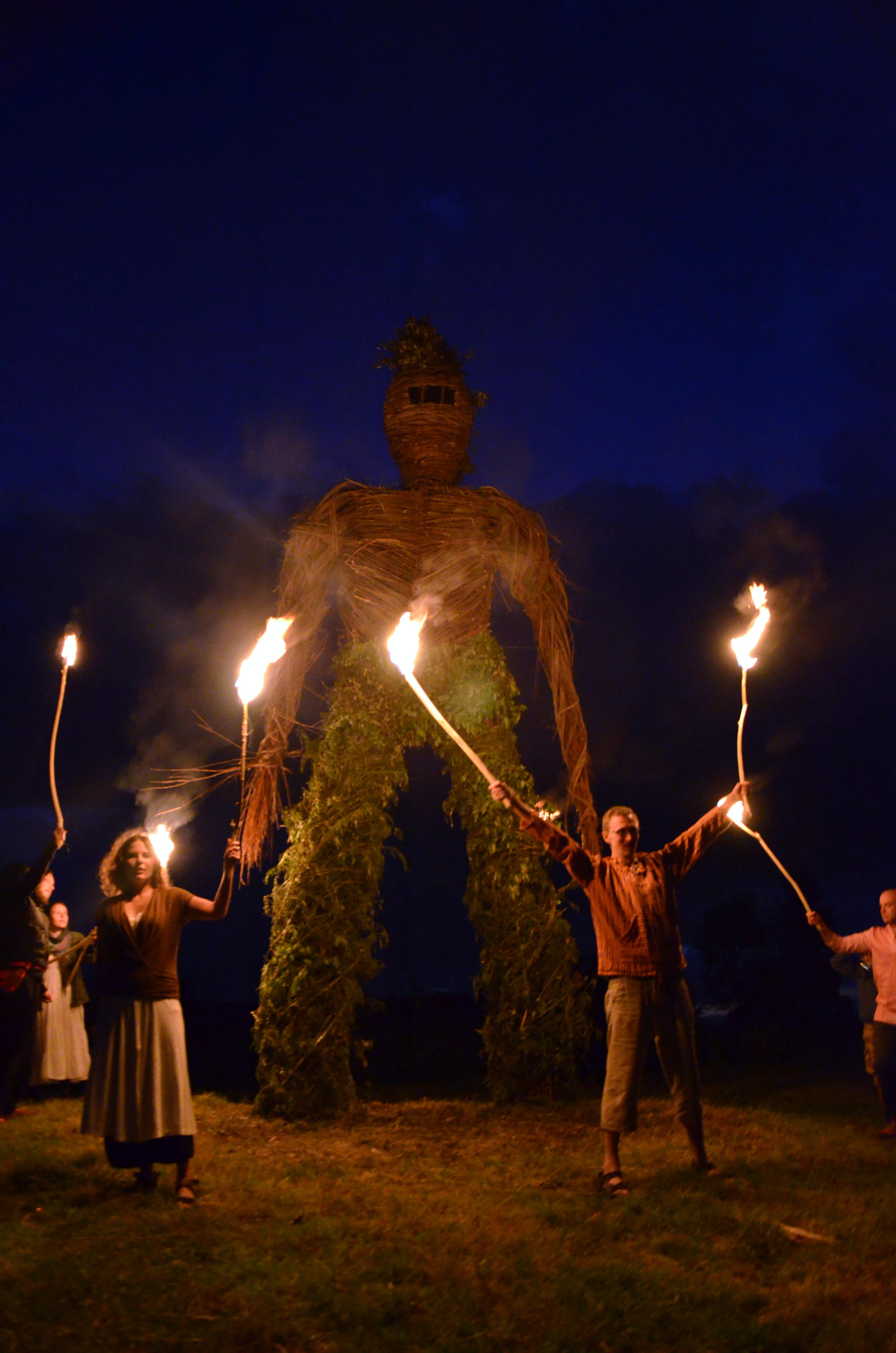 Wickerman Fest of Fire celebrated at Kiczera Hill in Wola Sękowa, Sanok